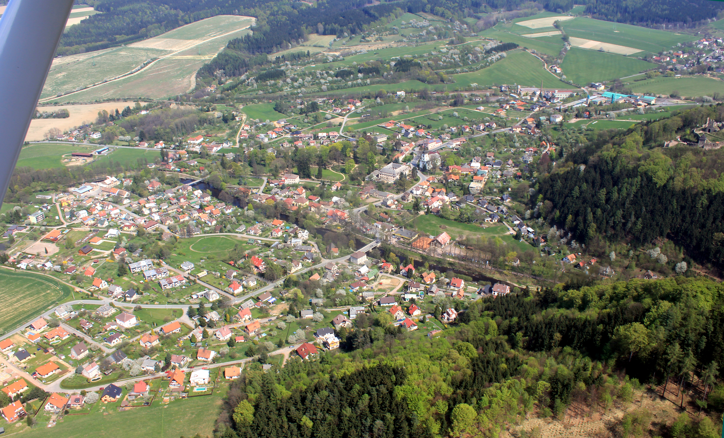 Village Potštejn from air, eastern Bohemia, Czech Republic